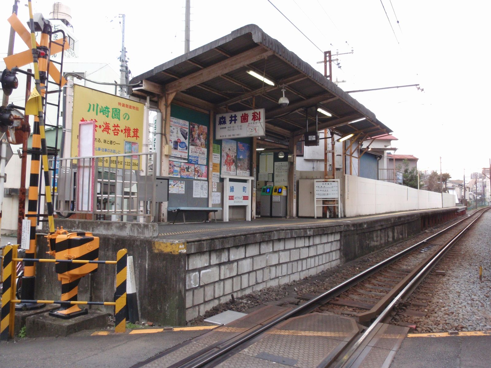 Inside of Midoricho Sta.